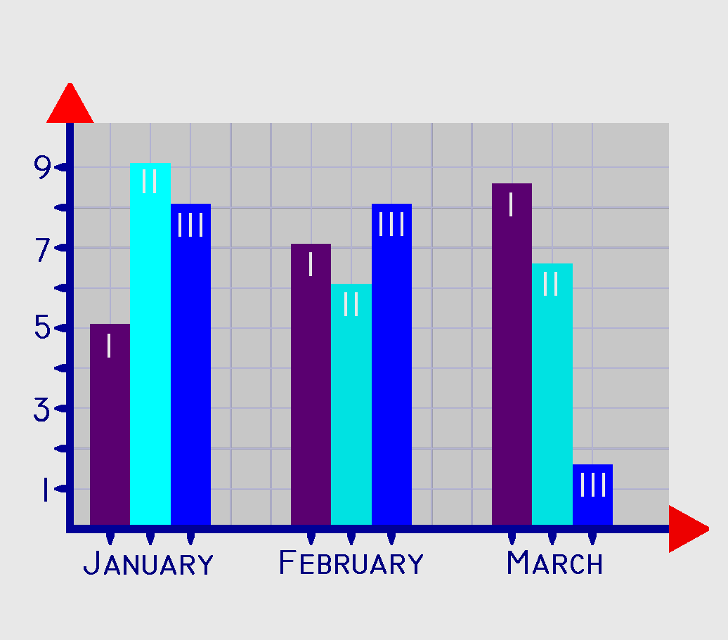 Column histogram.